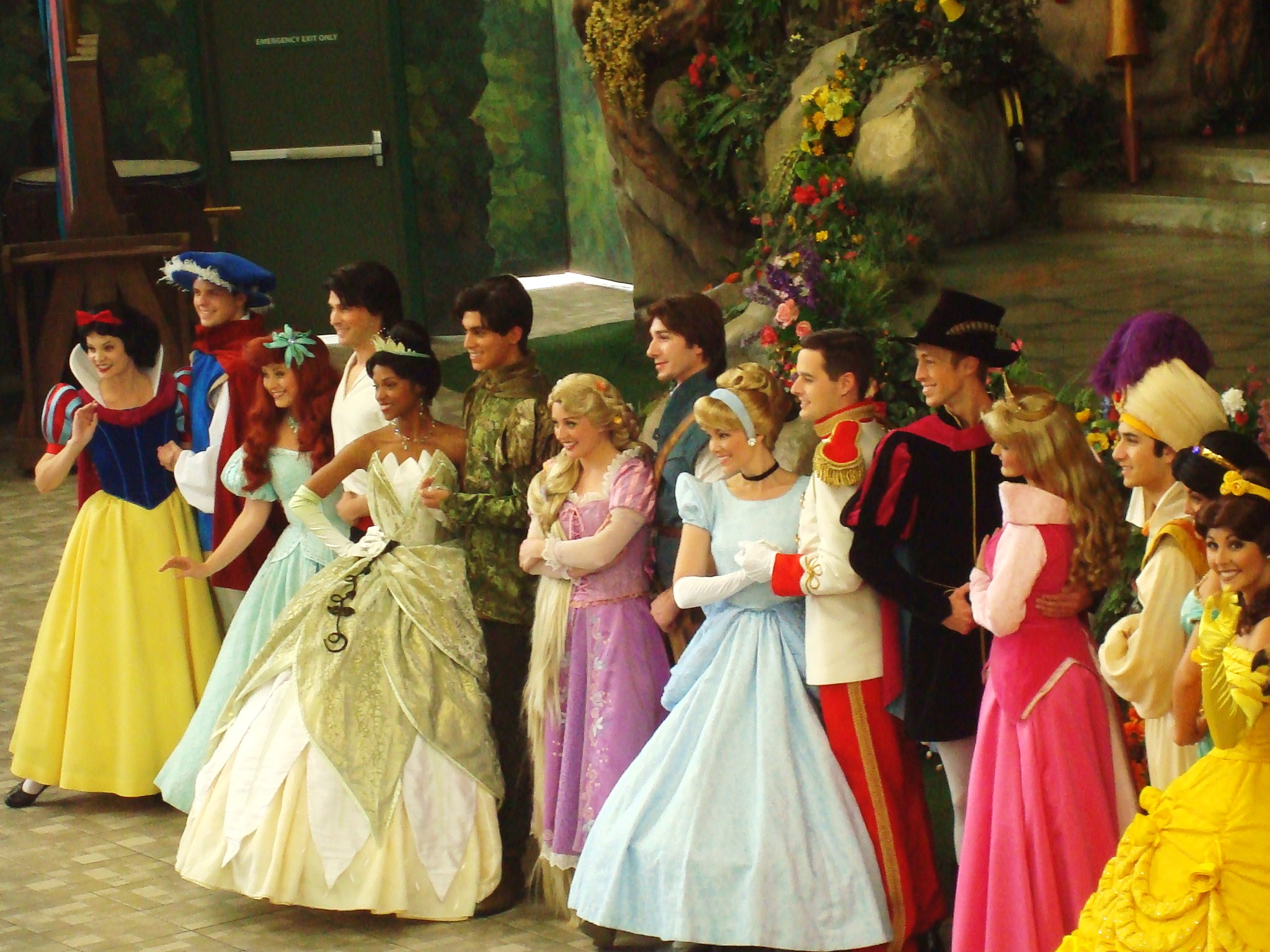 Snow White, The Prince, Ariel, Prince Eric, Tiana, Prince Navene, Rapunzel, Flynn Rider, Cinderella, Prince Charming, Prince Phillip, Aurora (Sleeping Beauty), Aladdin, Jasmine, Belle, the Beast (before returning to form as Prince Adam).